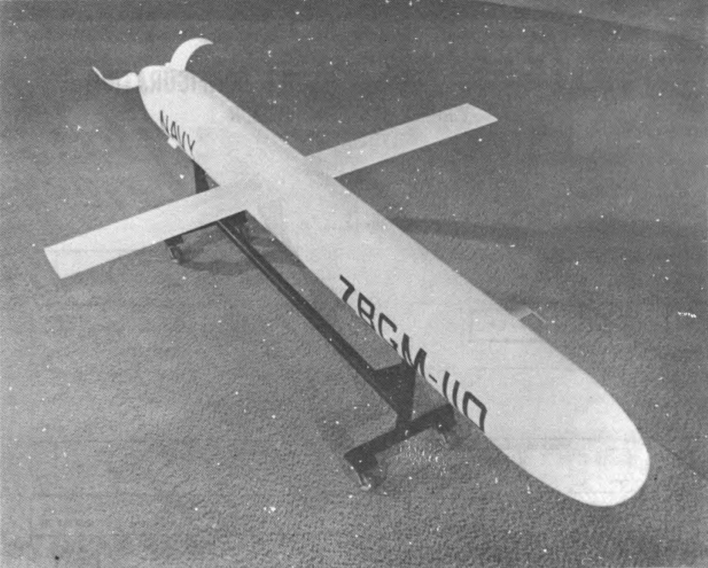 Navy ZBGM-110 mock-up of the Vought missile showing its unique wrap-around tail. Vought missile is bare, with a steel fuselage, fiberglass wings, and a flush inlet, empoying modified version of the SCAD turbofan engine.